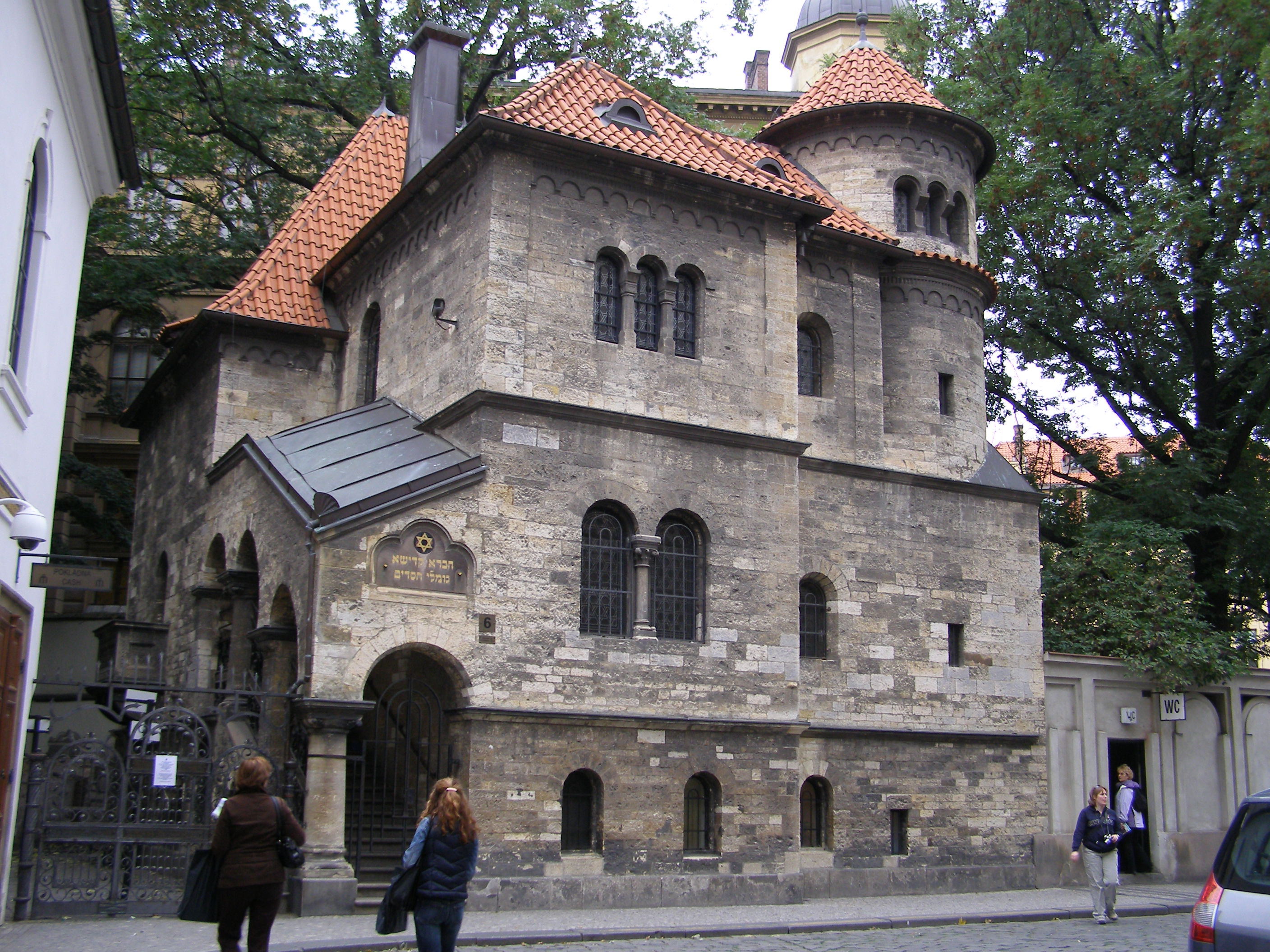 Part of Jewish museum - Ceremony hall in Prague, Czech Republic.